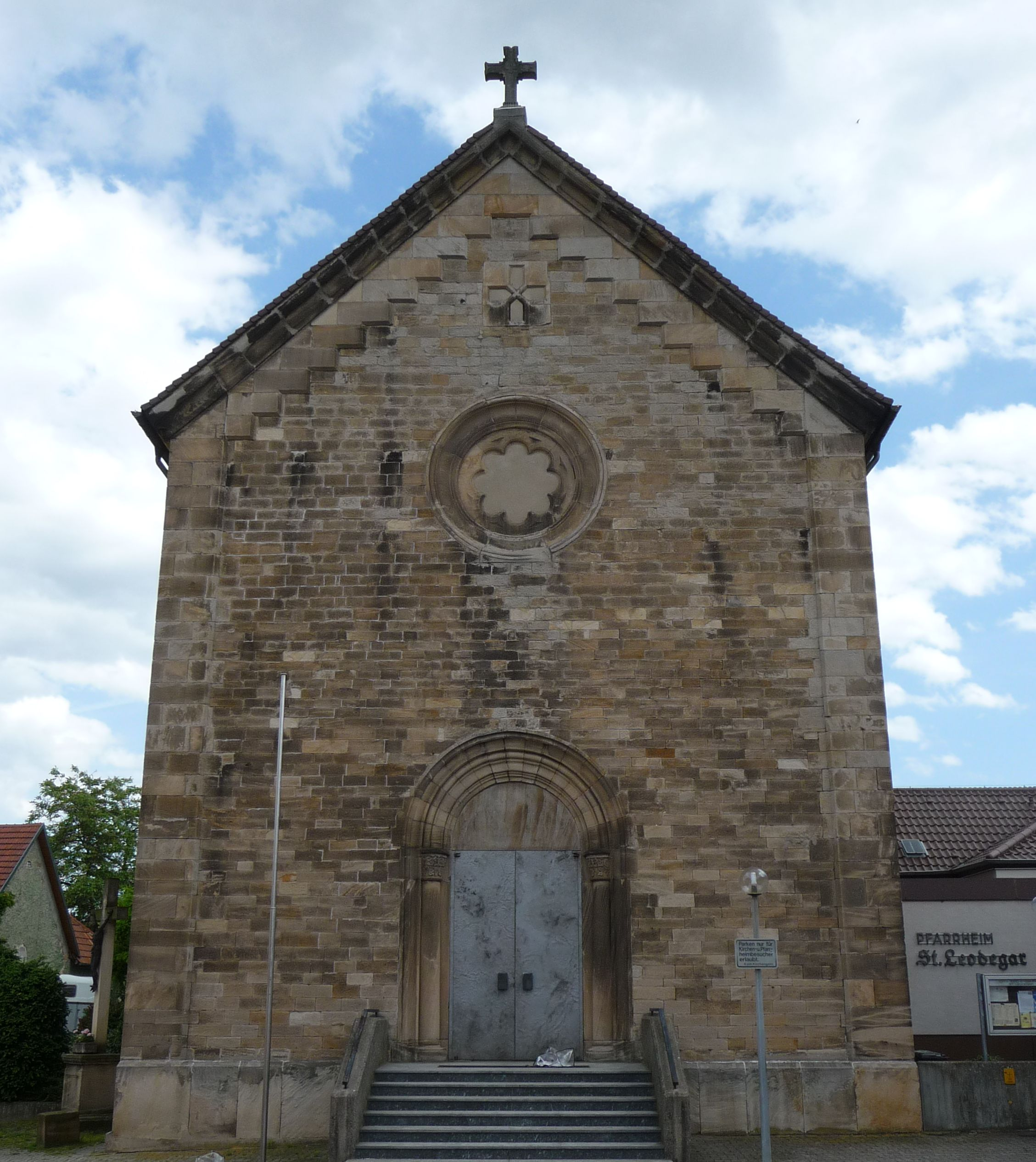 Catholic Church in Gerolsheim, Germany